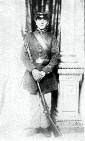 John Haag, Age 20, Photo taken in August 1862, Company B, Twenty-sixth Wisconsin Volunteer Infantry. Chippewa County Wisconsin Past and Present, Volume II. Chicago: S.J. Clarke Publishing Company, 1913. p. 258.